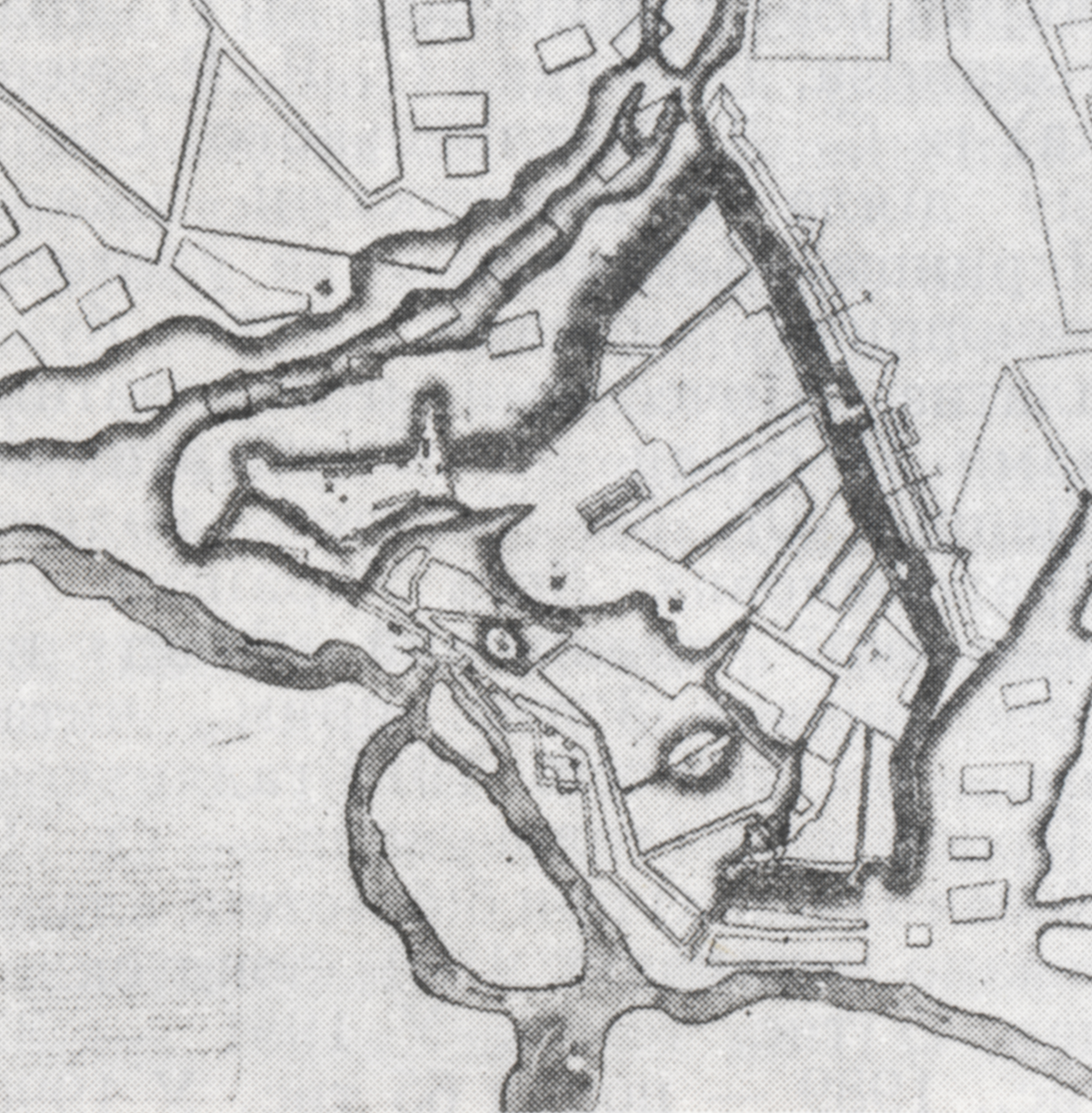 Gadiach fortress. Plan 1746